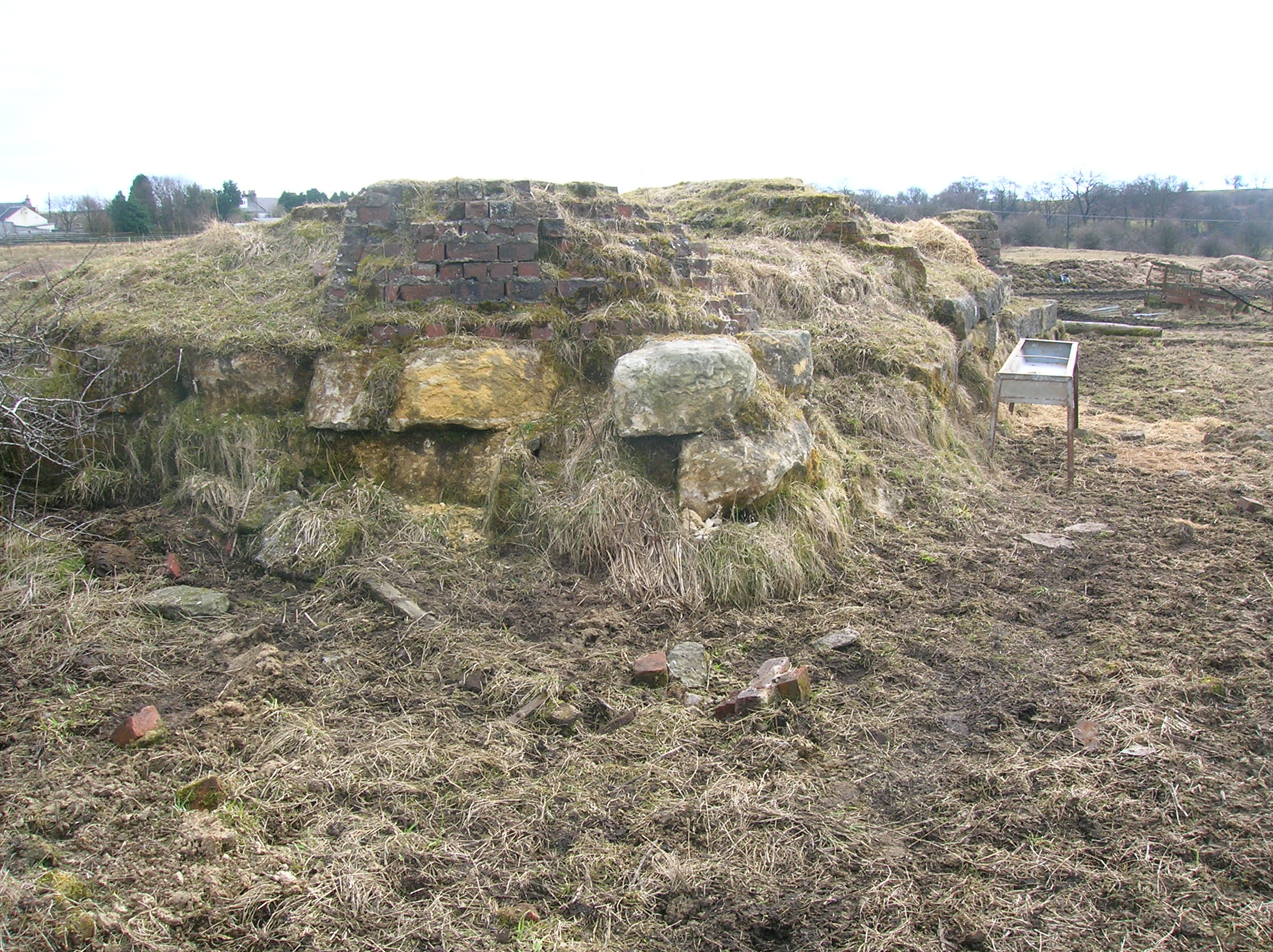 Ruins at the old Ironstone Works, Dockra,by Barrmil, North Ayrshire, Scotland.